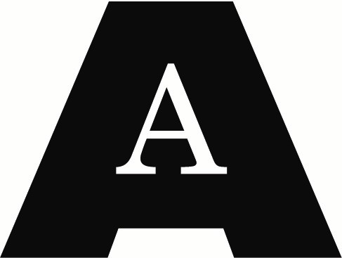 aaww